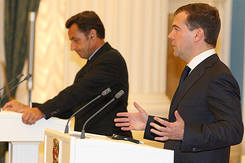 THE KREMLIN, MOSCOW. Joint press conference with French President Nicolas Sarkozy.